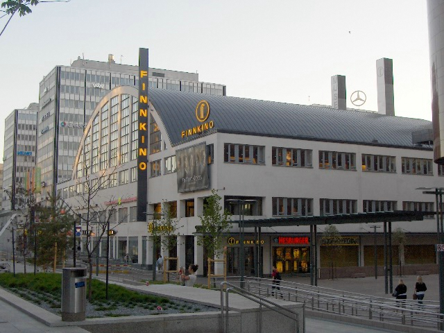 Tennispalatsi (The Tennis Palace), Fredrikinkatu 35, Helsinki, Finland. Built 1937. Architect: Helge Lundström. Now a movie theater.